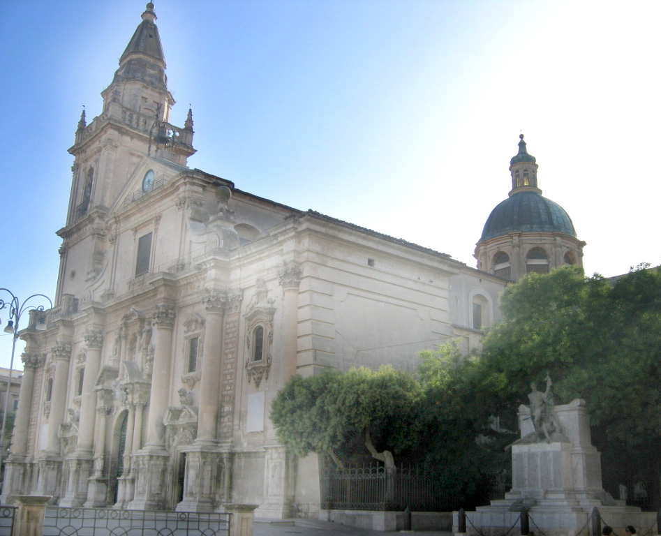 Ragusa Nova, Cathédrale, Ragusa, Italy, Sicilia Author : Urban Body : Canon Powershot A80 Date : August, 2005